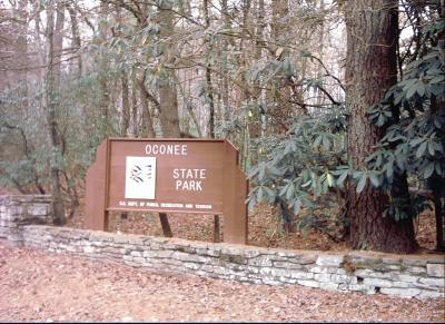 The sign in front at Oconee State Park.